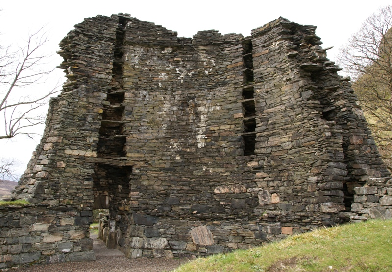 Dun Telve, Glenelg, Highland, Scotland - inside